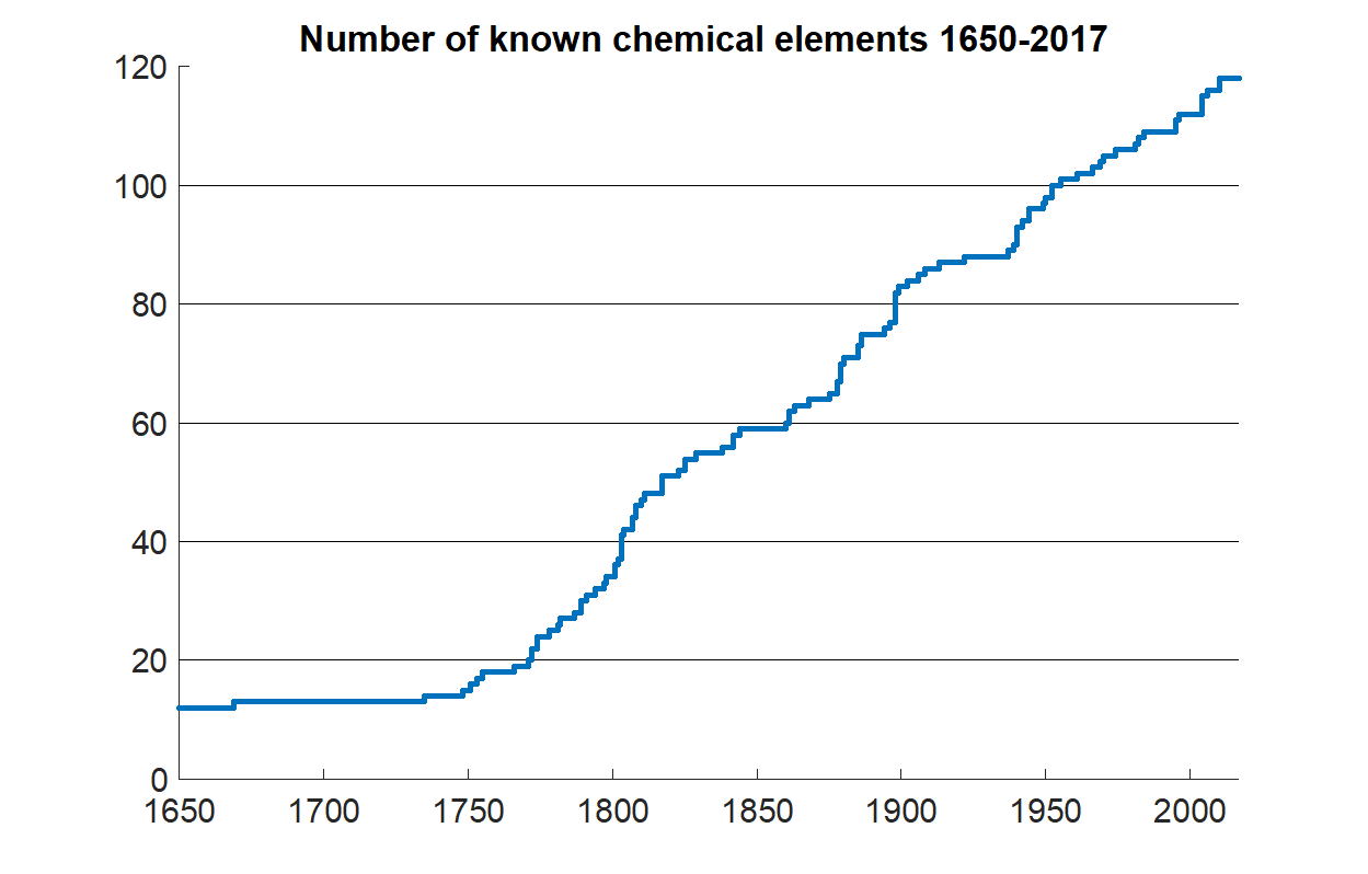 Graph of number of known chemical elements from 1650 until present